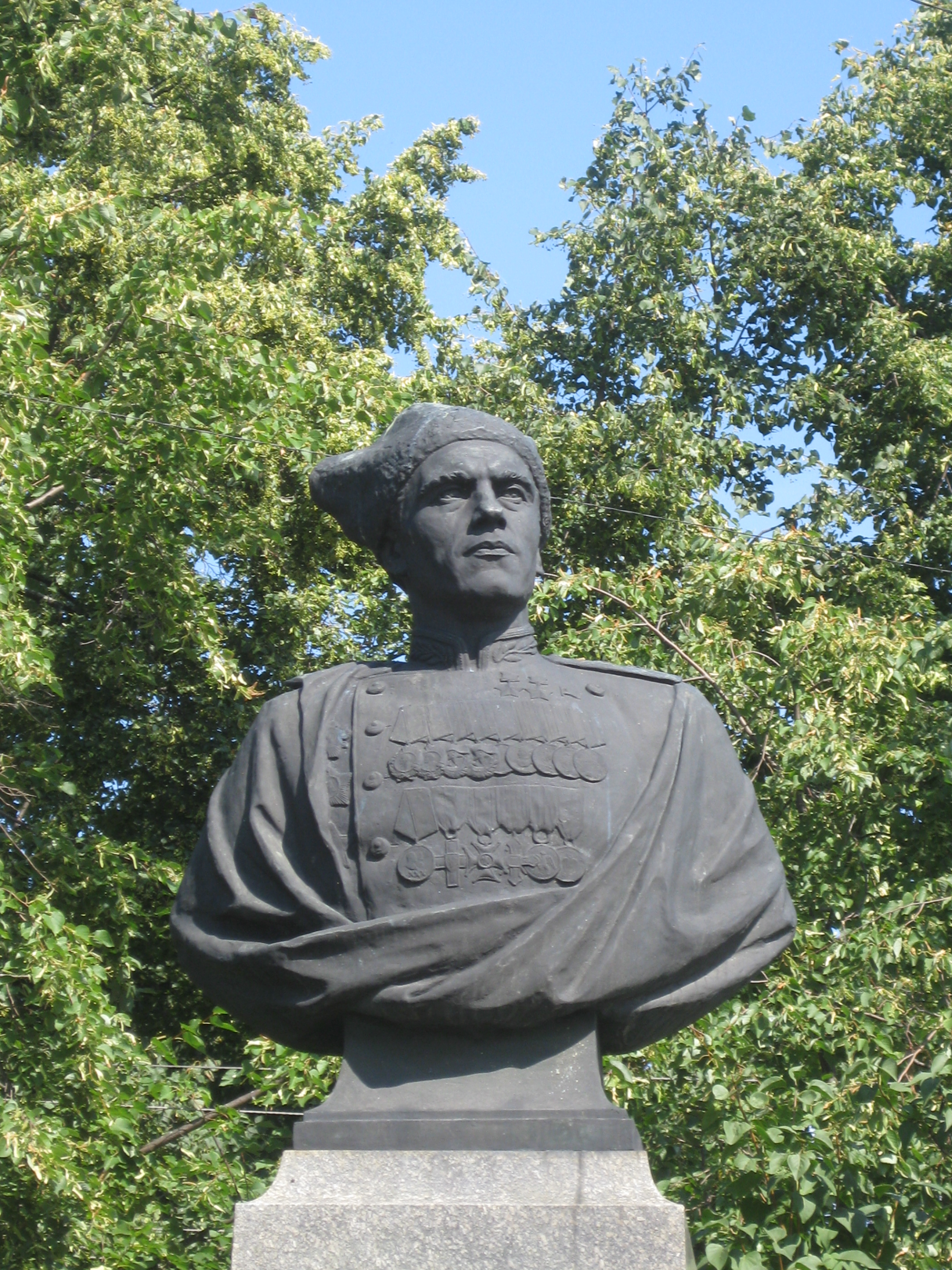 Monument to Vasily Riazanov in his motherland Bolshoe Kozino village